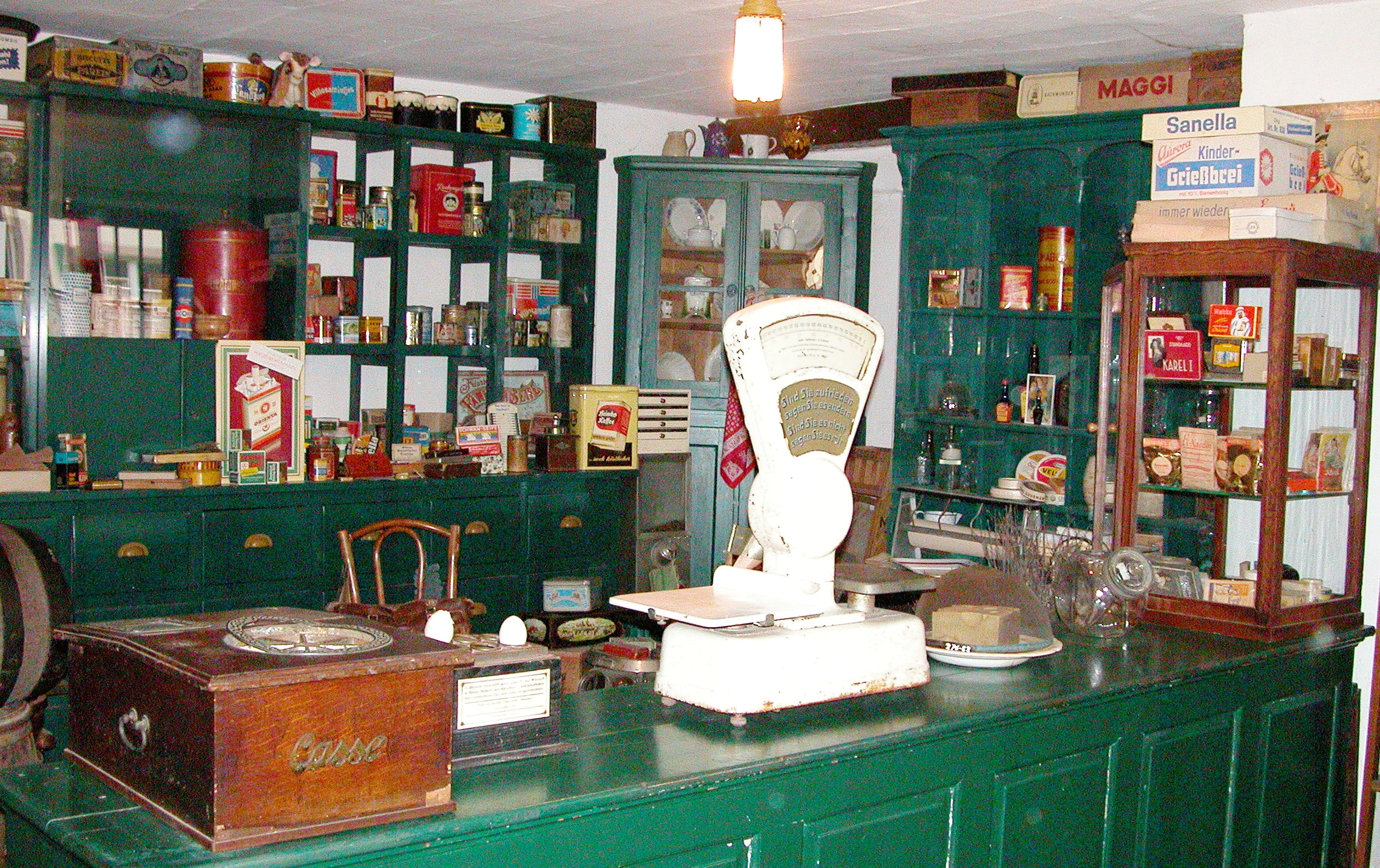 Grocer's shop about 1900